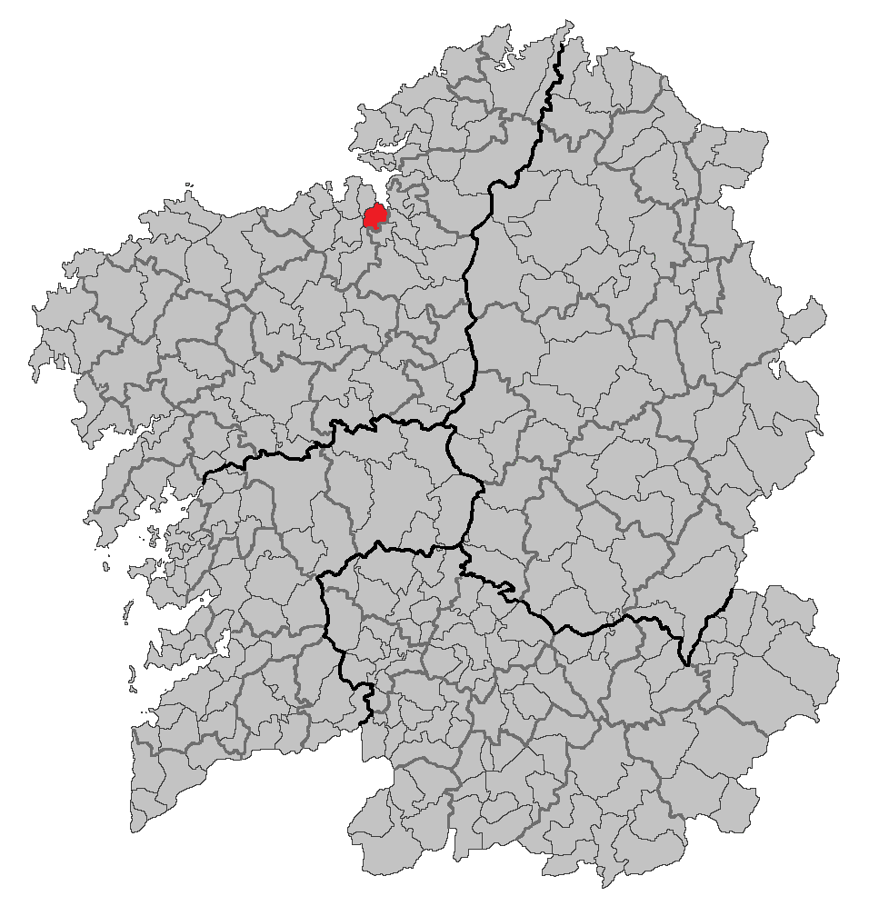 Location map of Bergondo, A Coruña, Galicia